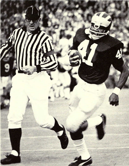 Photograph of Randy Logan (No. 41) returning an interception for a touchdown against Tulane in 1972